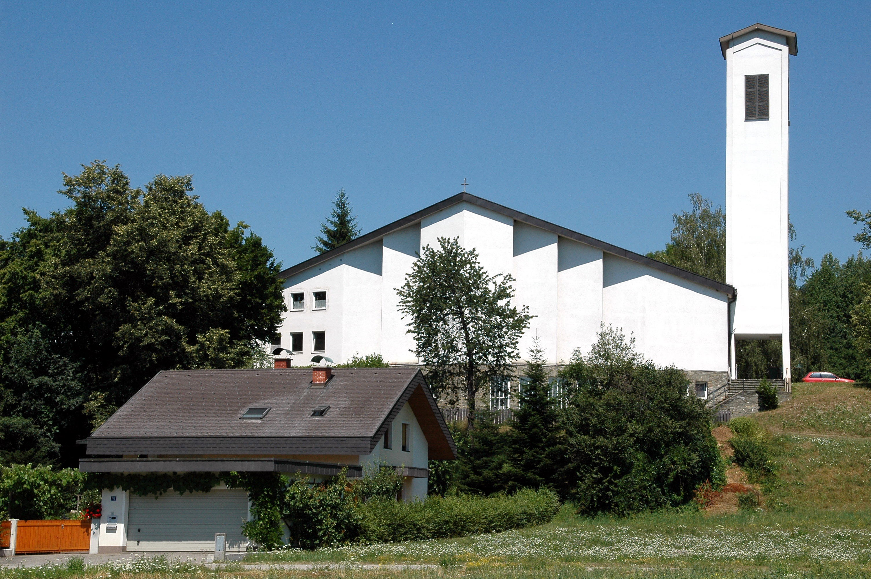 Parish church Saint George on Kirchenweg #11, municipality Krumpendorf, district Klagenfurt Land, Carinthia, Austria, EU